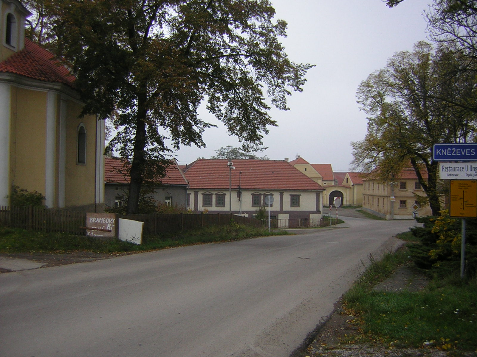 Dobrovíz